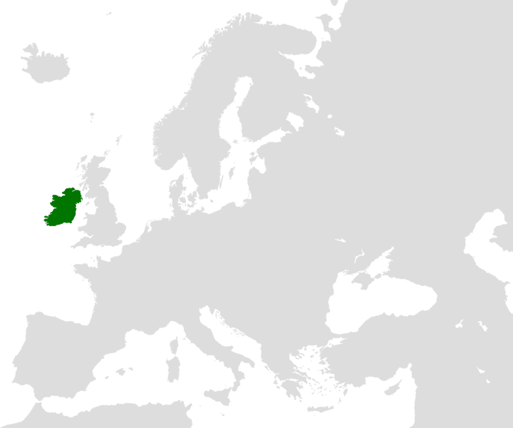 The island of Ireland highlighted on a blank map of Europe which includes Northern Ireland.